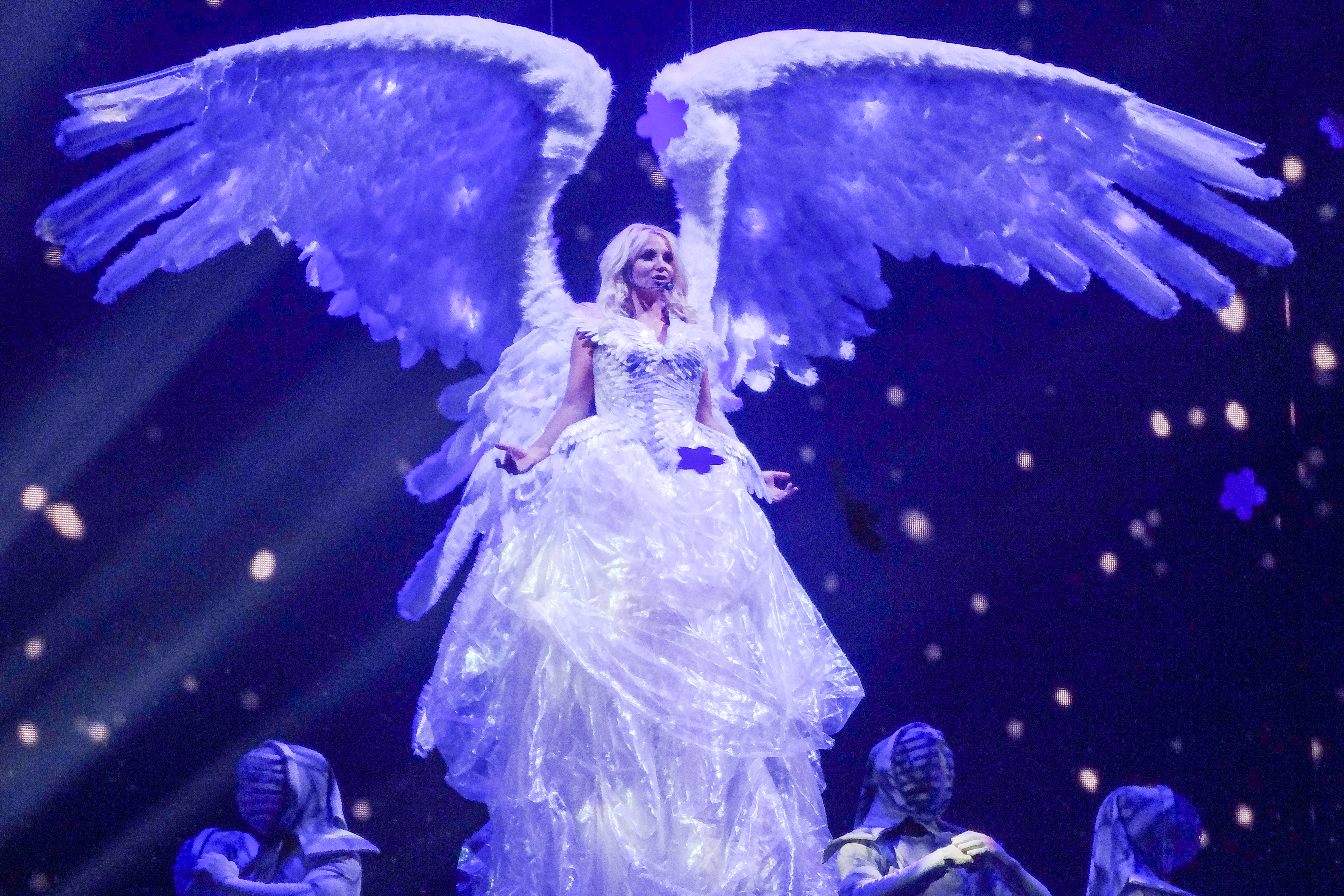 Everytime